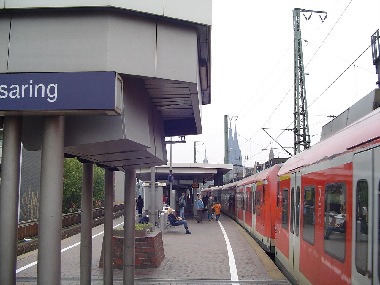 Hansaring Railway Station, Cologne, Germany